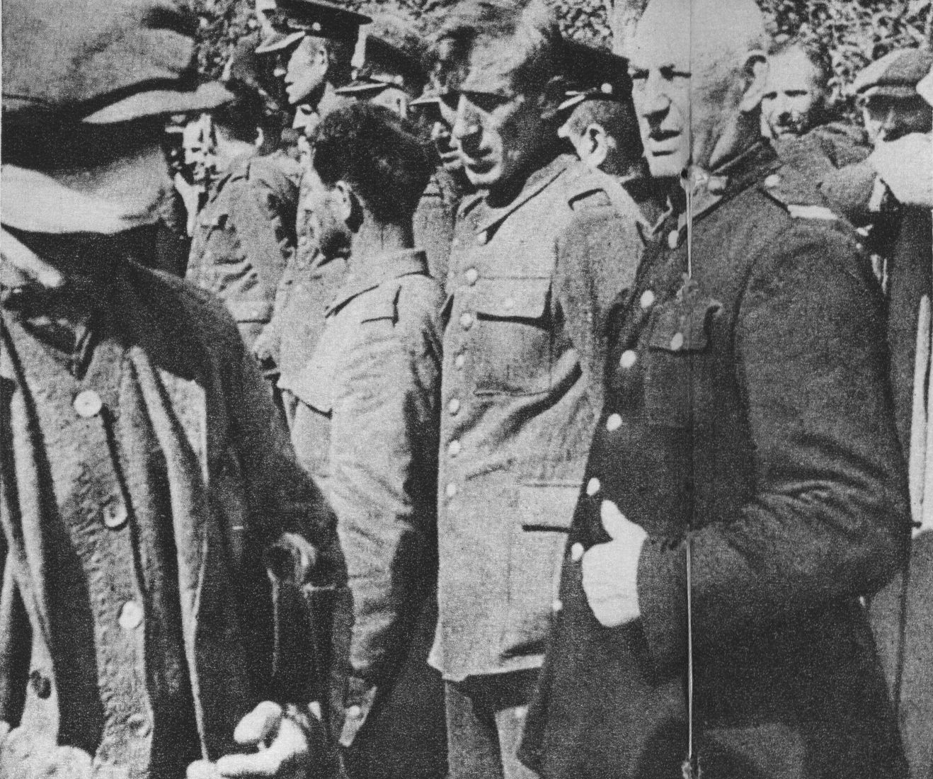 Volksdeutscher (de: ethnic German) identifying a Pole - an alleged participant in the events of so-called "Blody Sunday in Bydgoszcz" (de: Bromberger Blutsonntag). In the first days of September 1939 Poles denounced in such way were usually shot on the spot. This photo was taken in the artillery barracks at 147 Gdańska Street in Bydgoszcz.